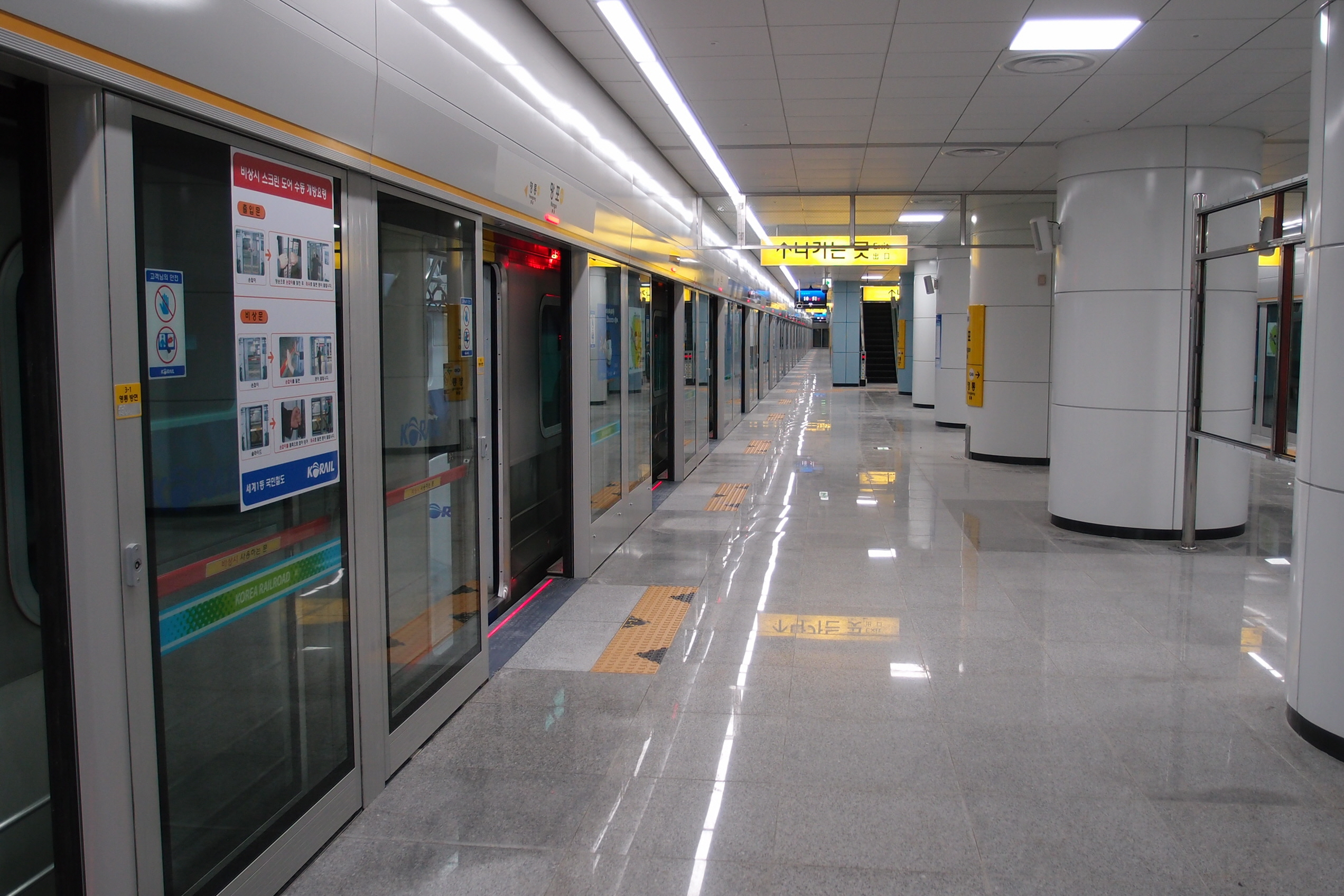 K241 Mangpo station platform